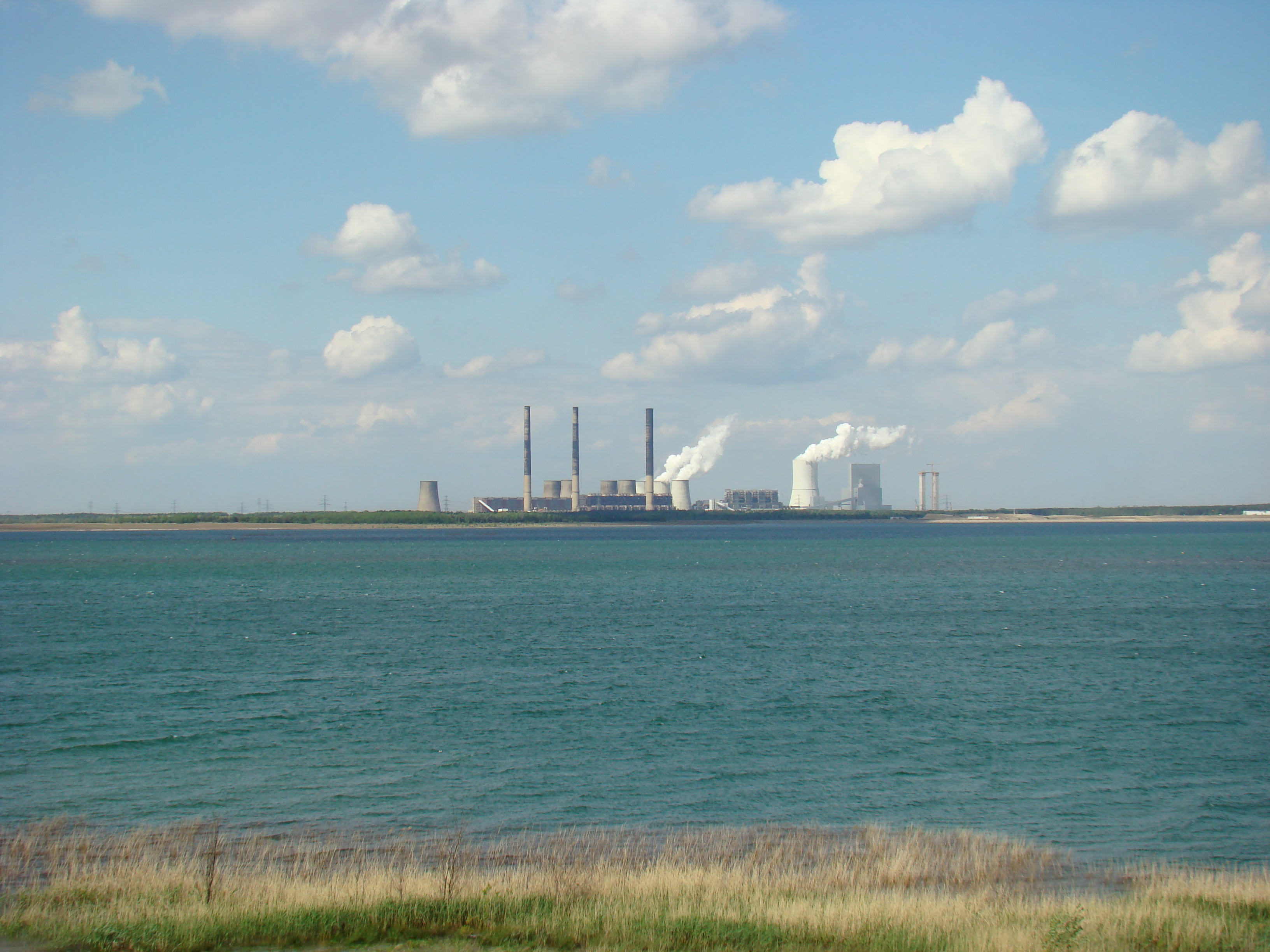 View towards Boxberg power station from Lake Baerwalde.